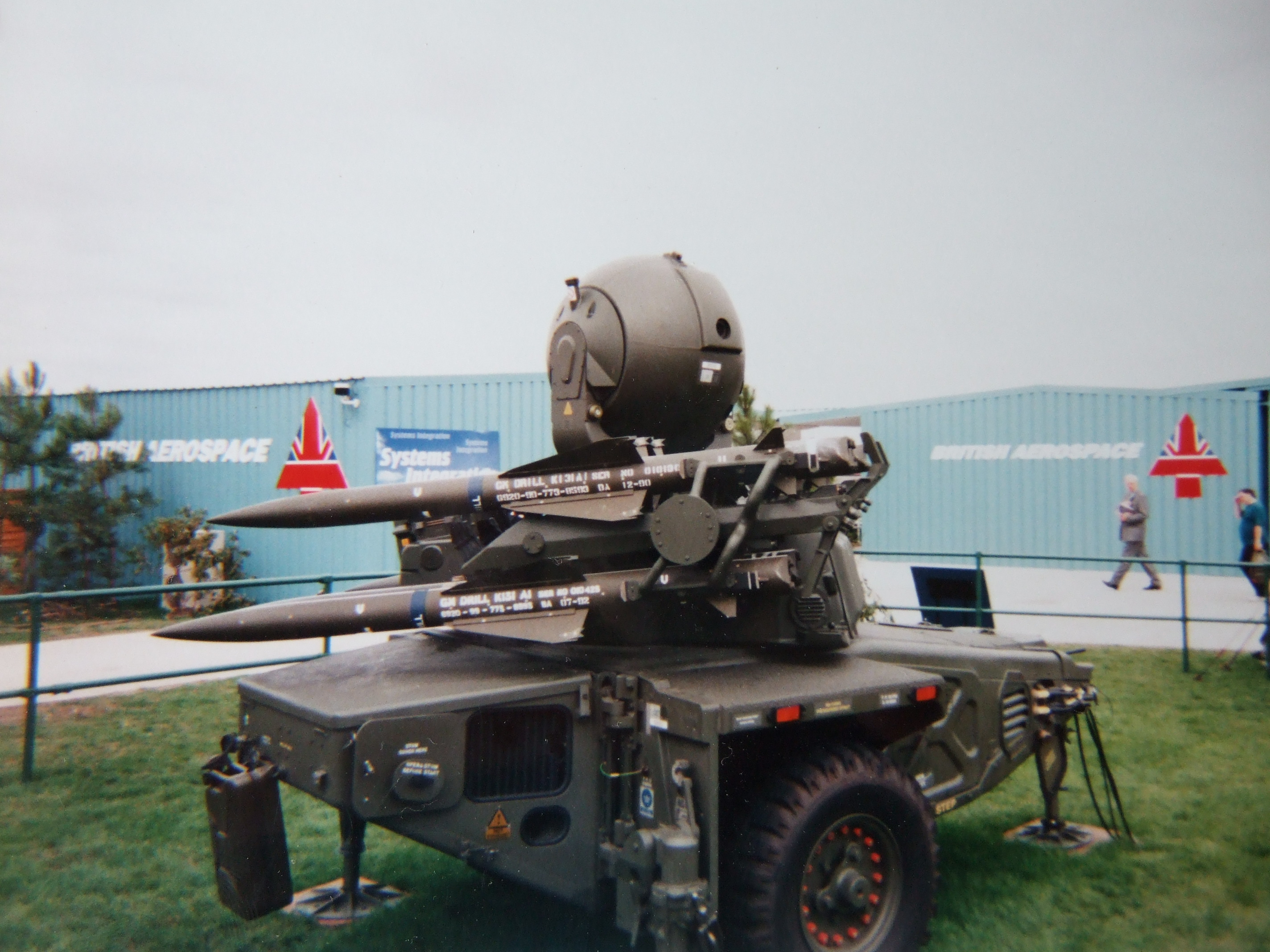 Rapier missile firing unit on display at Farnborough airshow 1996. This is the unit that tracked the supposedly invisible B2 bomber.